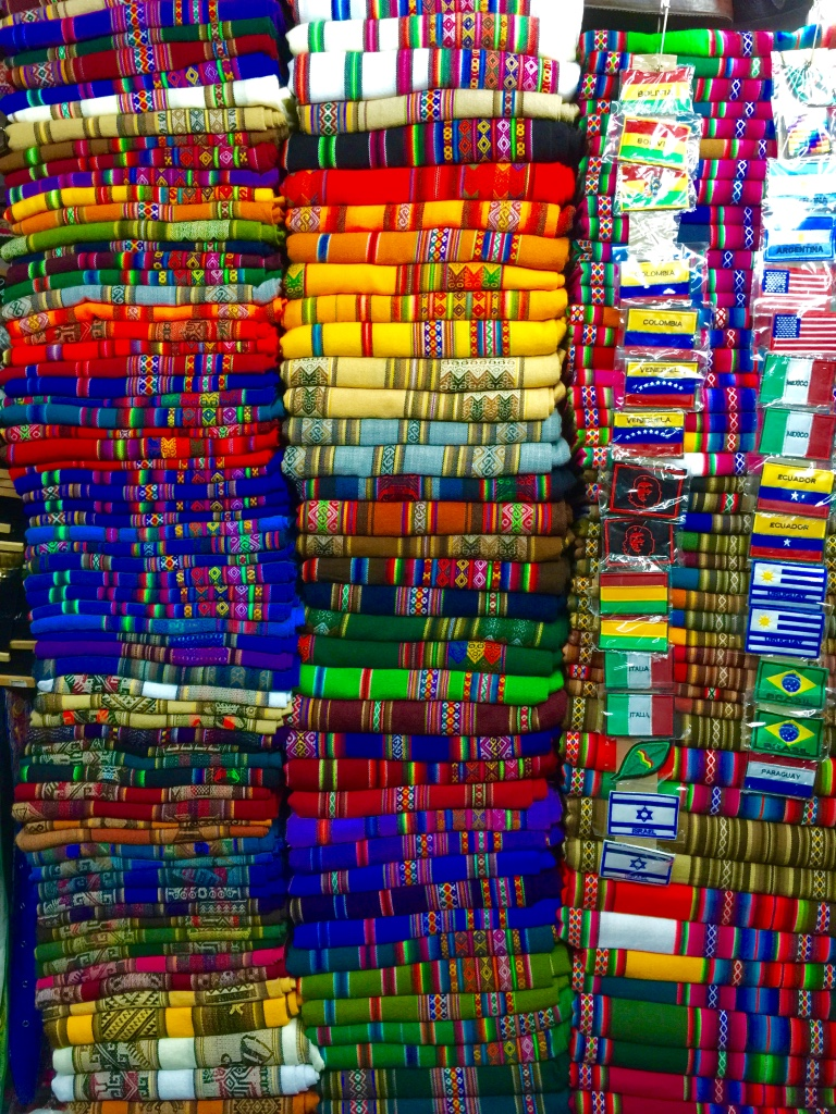 Bolivian "Aguayos"